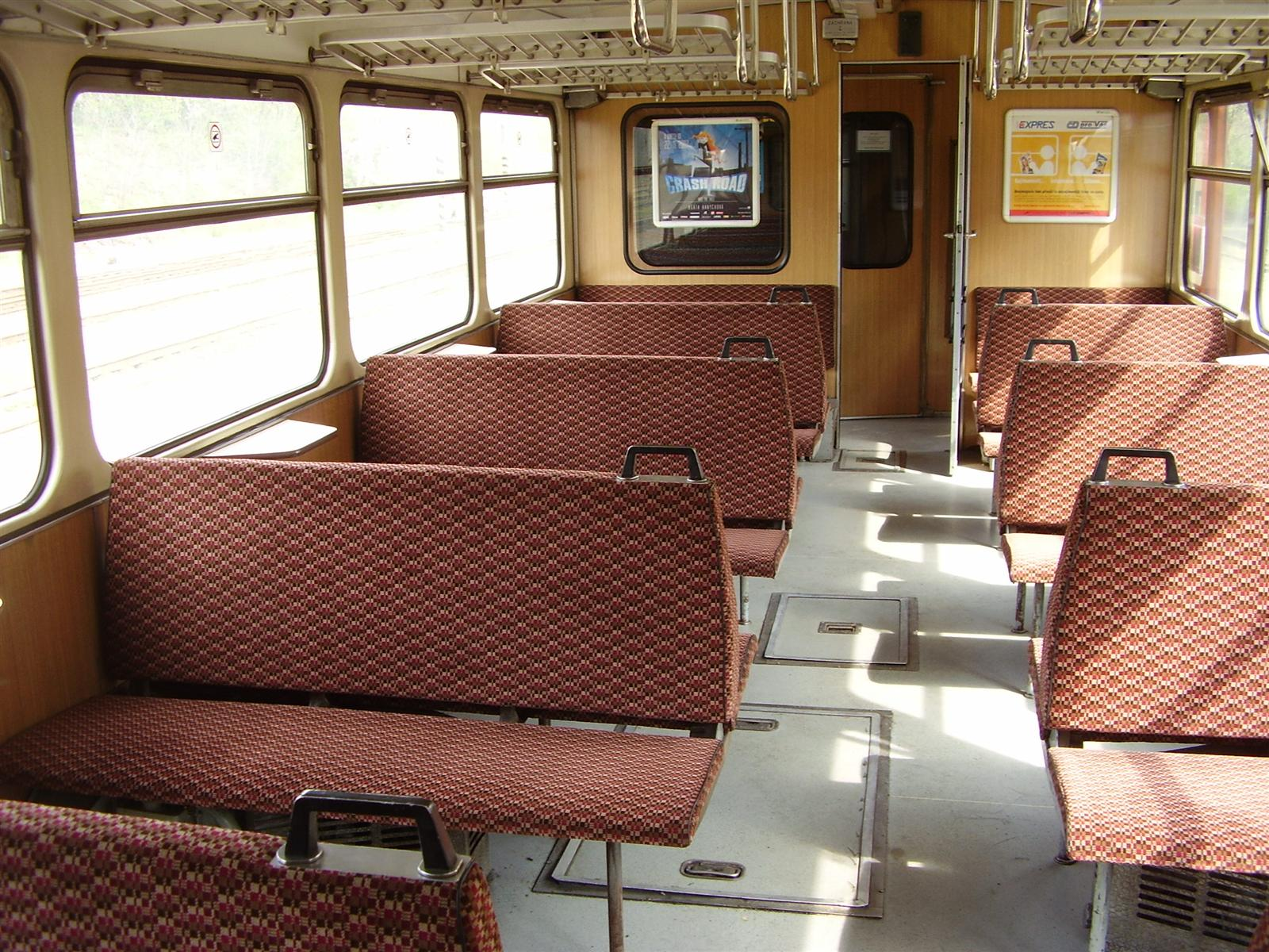 Interier of ČD diesel unit 810